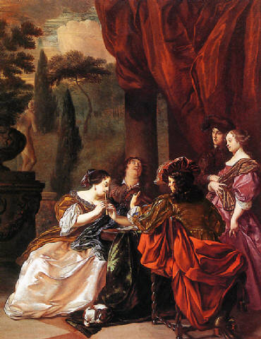 A musical concert on a terrace with a young couple Medium Oil on Panel Size 32.5 x 26 in. / 82.6 x 66 cm. Sale Of Sotheby's New York: Thursday, May 25, 2000 [Lot 38]